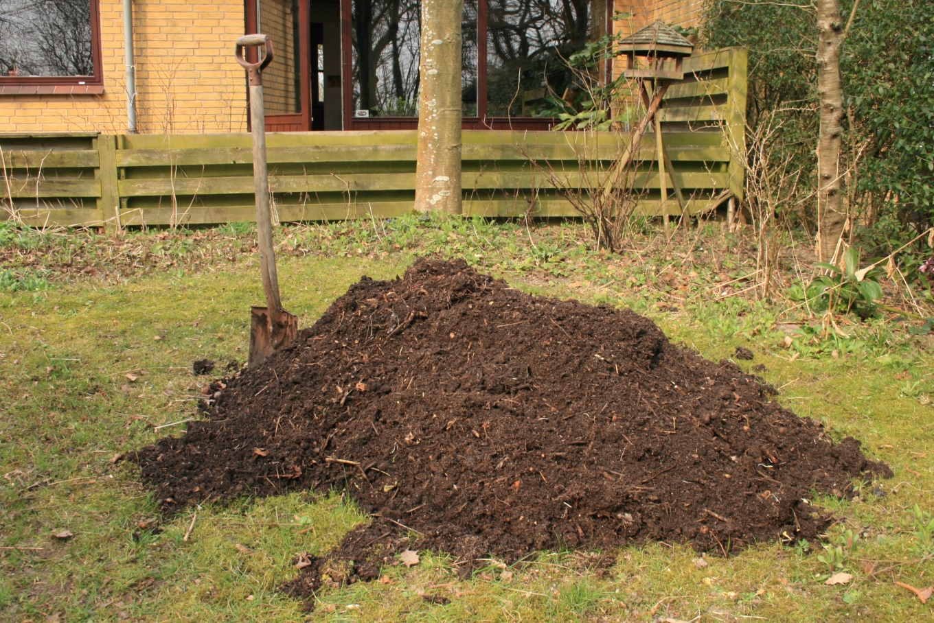 Compost heap. This is the amount that is produced in one year by a houshold of two persons based on garden- and kitchengarbage.